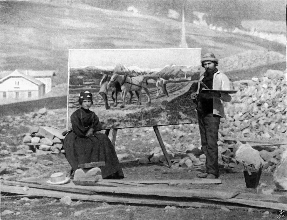 Giovanni Segantini and his wife, undated